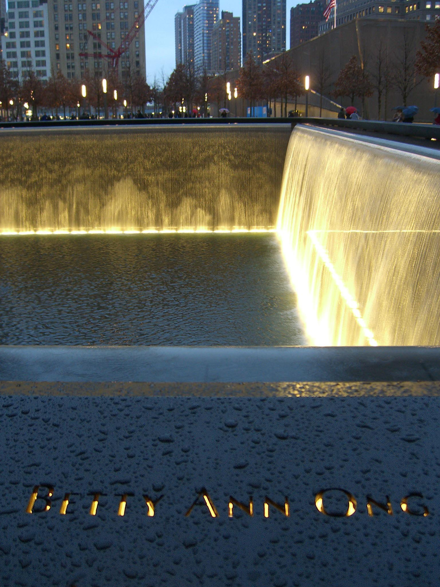 The name of Betty Ong is seen with those of other 9/11 victims from American Airlines Flight 11, inscribed on bronze panel N-74 of the North Pool of the National September 11 Memorial in Manhattan, as seen on December 6, 2011. This photo was created by Luigi Novi. If you have any questions, you can contact me by sending me an email or User talk:Nightscream